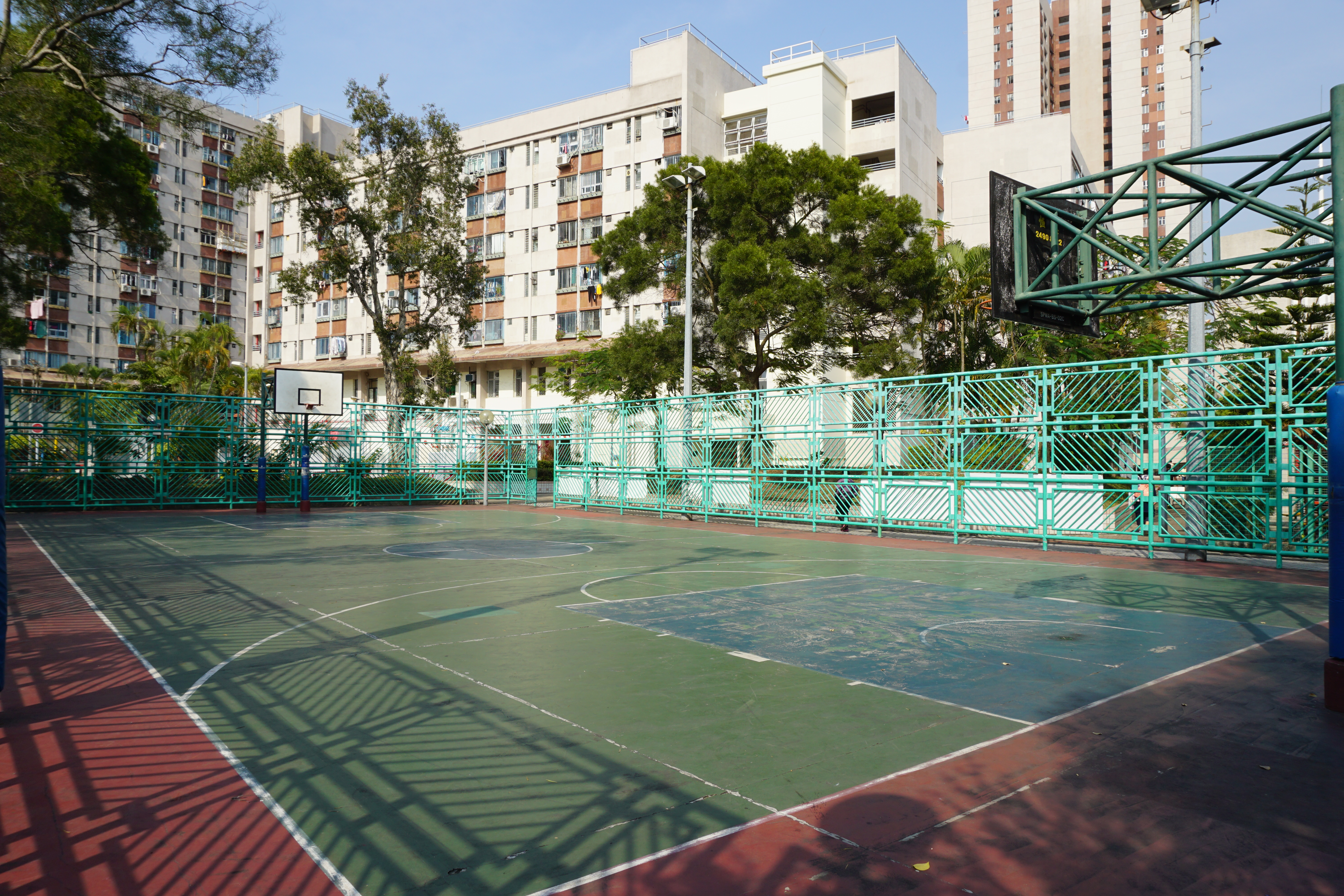 Shui Pin Wai Estate in Yuen Long, Hong Kong.